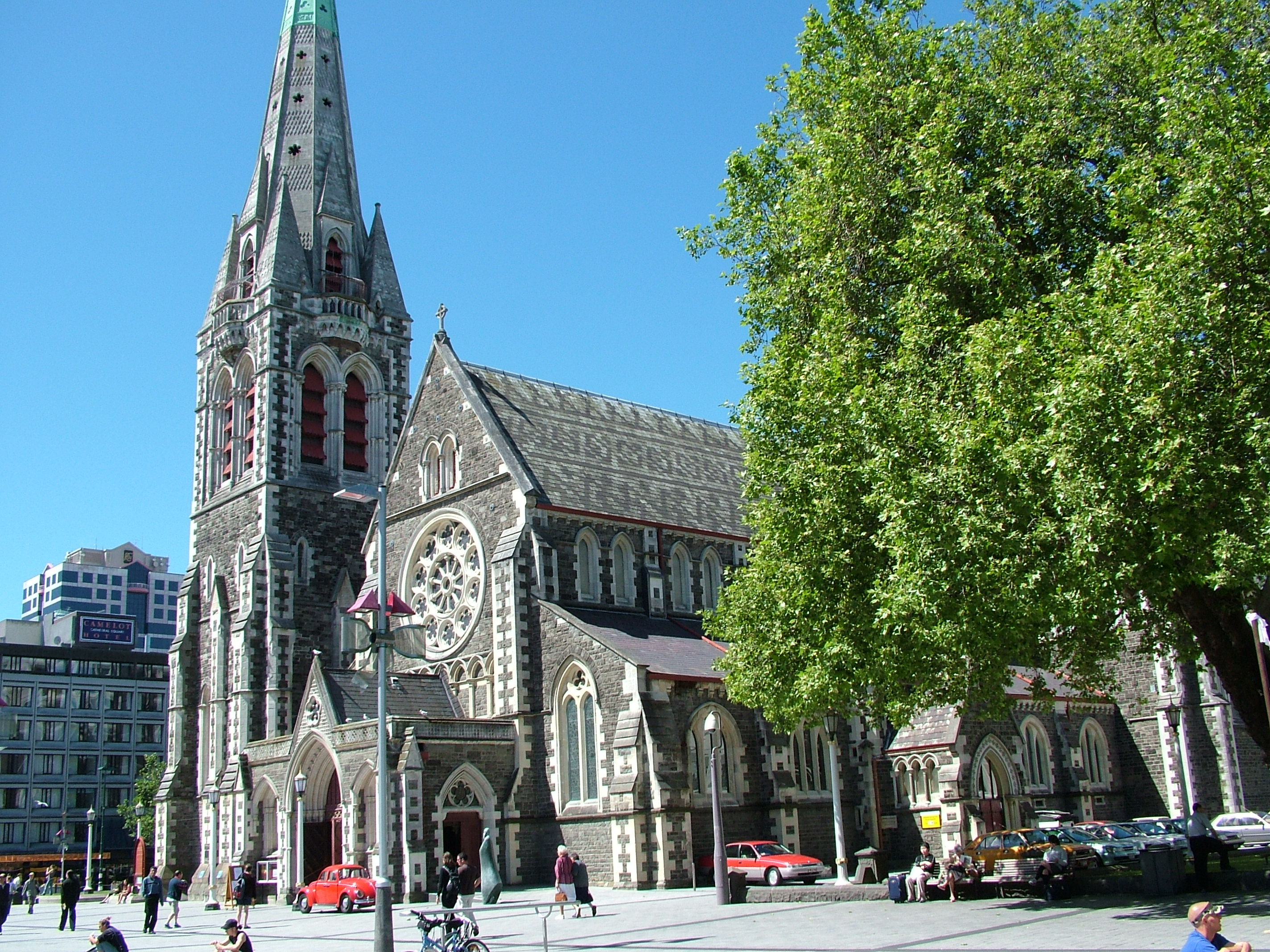 Christchurch Cathedral. Christchurch, New Zealand.